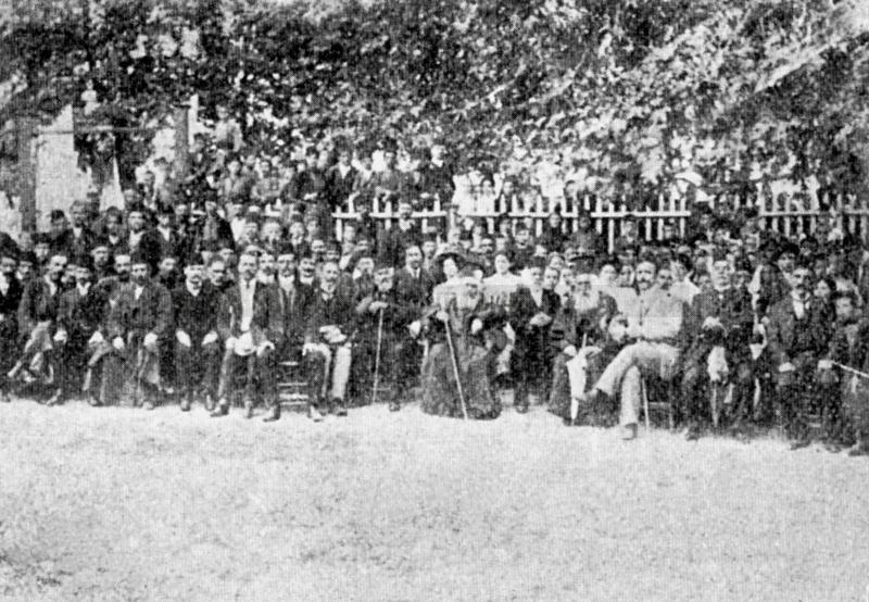 Ethnic Greeks of Magarevo (Megarovo, Μεγάροβο) Pelagonia, (near Bitola, Битола) Northern Macedonia.